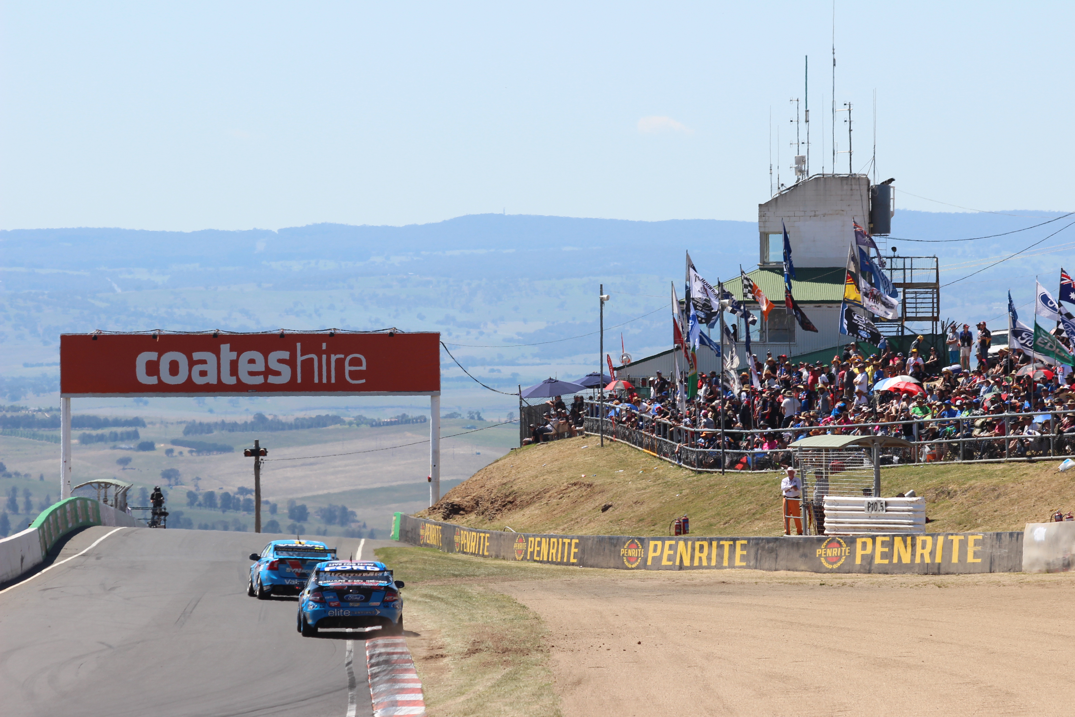 A Volvo S60 and a Ford FG Falcon on the run from McPhillamy Park to Brock's Skyline during the 2014 Supercheap Auto Bathurst 1000.